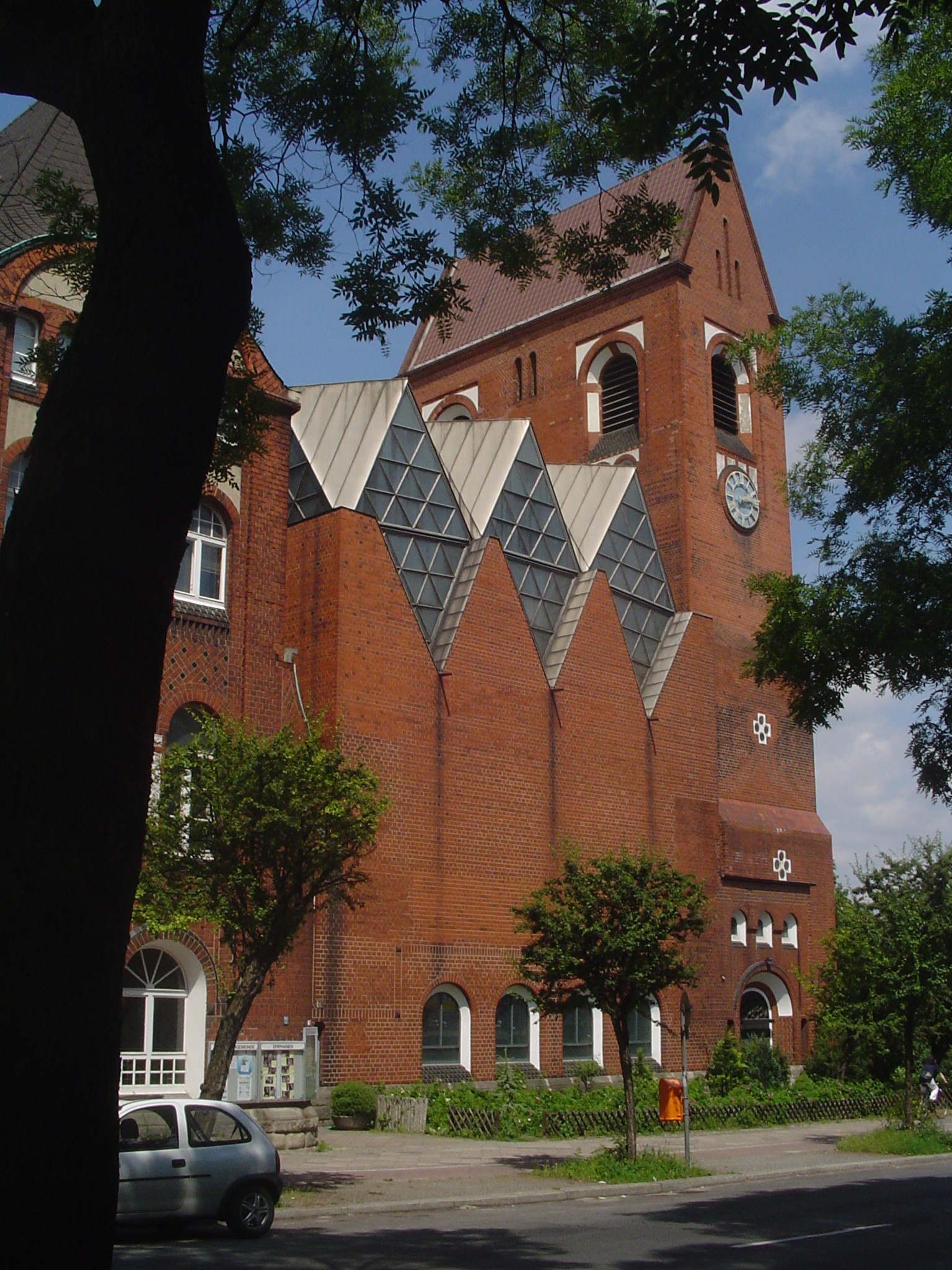 Epiphanien church in Berlin-Westend, Germany. Shot from south